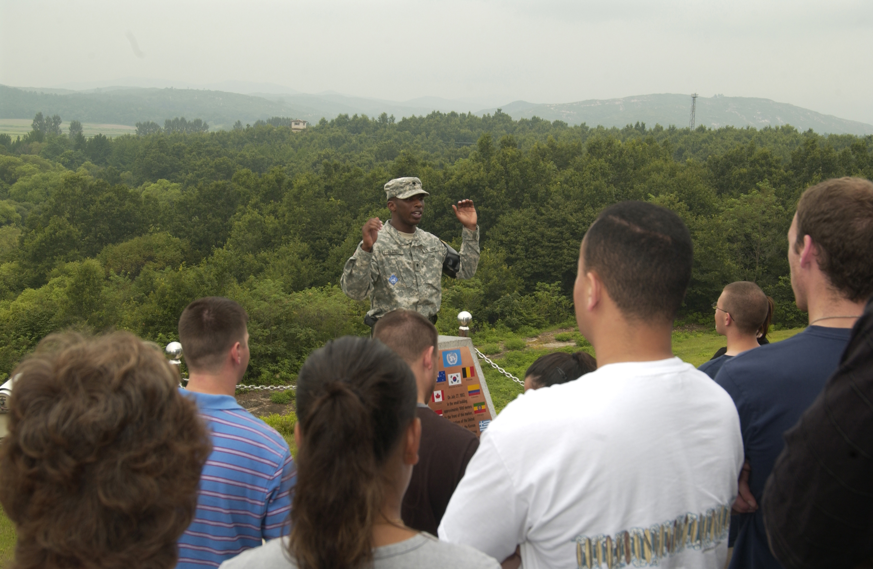 Specialist Victor Bland, security escort, United Nations Command, Security Battalion Joint Security Area, Camp Bonifas, explains the vast history between North and South Korea to patrons. Bland has been doing the DMZ tours for three months.